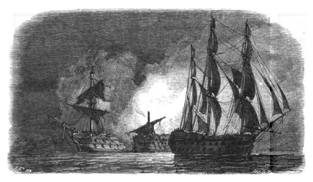 HMS Superb sails silently off the Spanish fleet at Algeciras Bay, while the Hermenegildo and Real Carlos explode in the background after mistakenly firing on one other. Drawing by Antoine Léon Morel-Fatio.Illustration from La Marine, by Pacini.